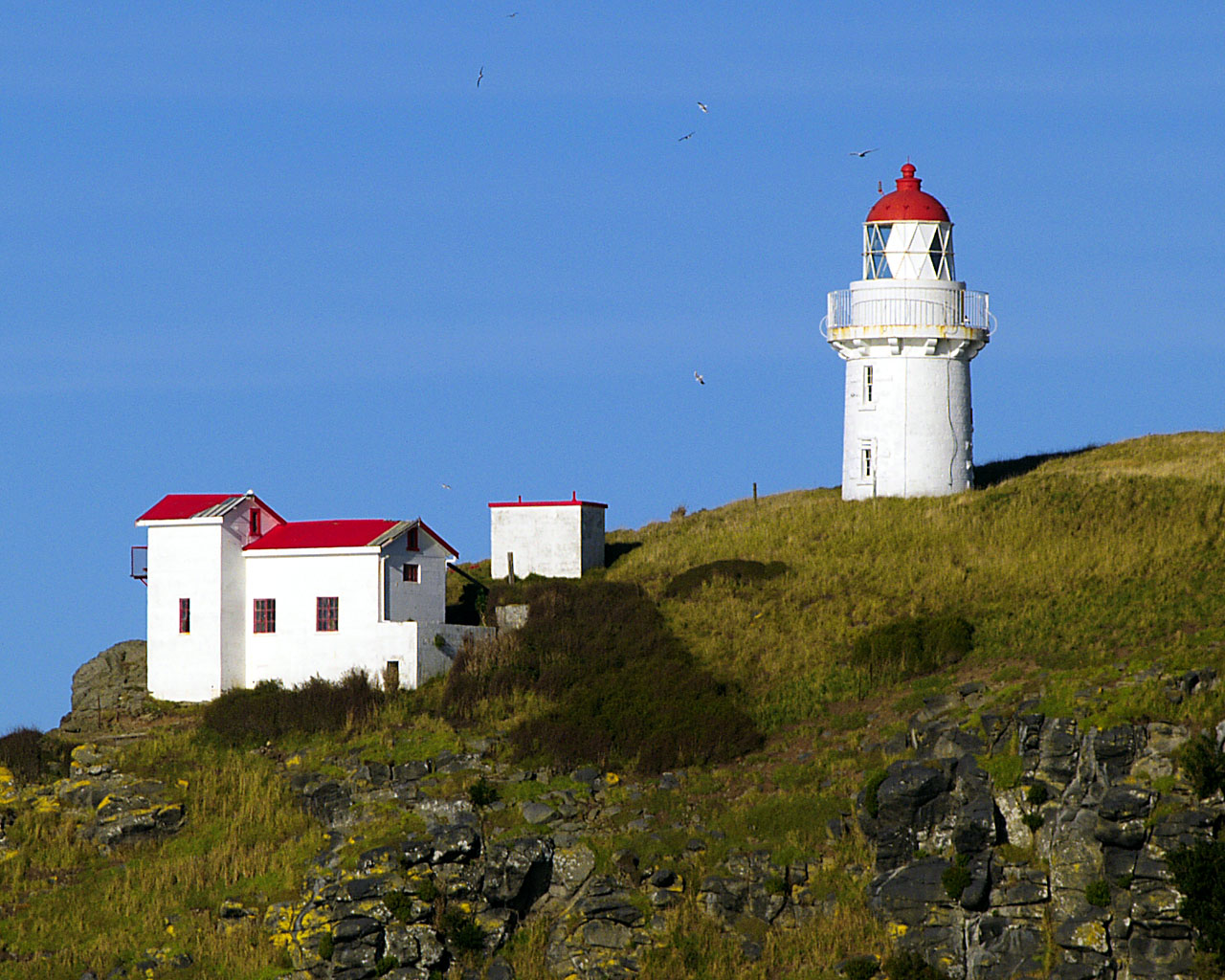 Lighthouse at Taiaroa Head, Otago Peninsula, Dunedin, New Zealand. New Zealand Historic Places Trust Register number: 2220.